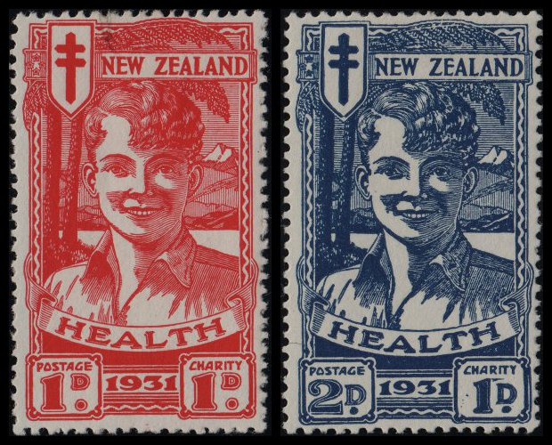 New Zealand's 1931 health stamps, the Red and Blue smiling boys.